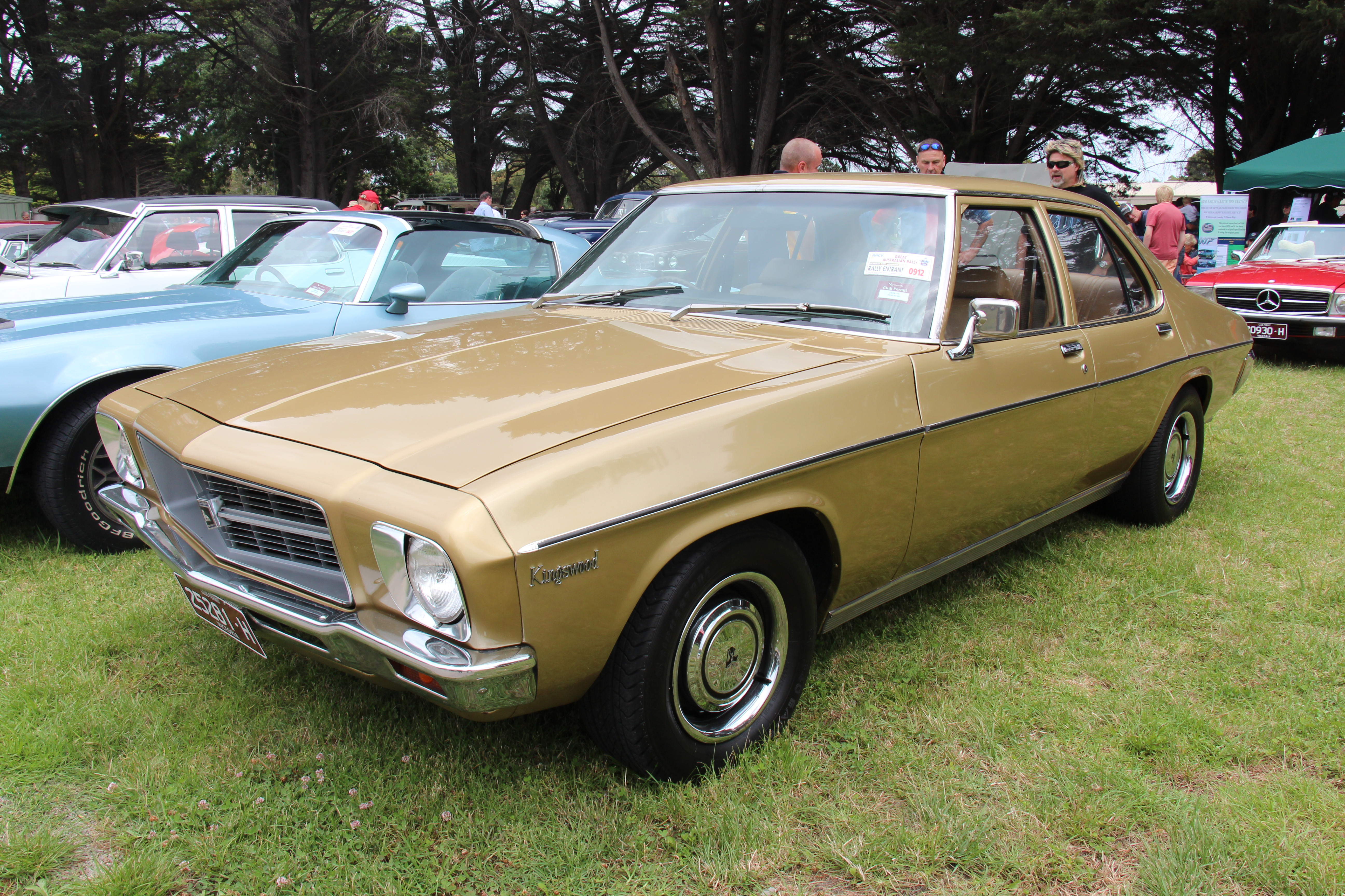 Holden HQ Kingswood Sedan